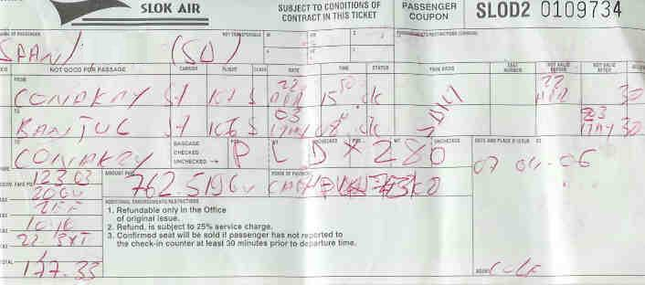 Scan Airline Ticket-- Joel Span